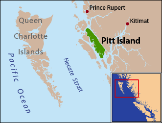 This is a locator map of Pitt Island. I, Pfly, made it with ArcGIS, Adobe Illustrator, and Adobe Photoshop. The coastline data is from the Digital Chart of the World.